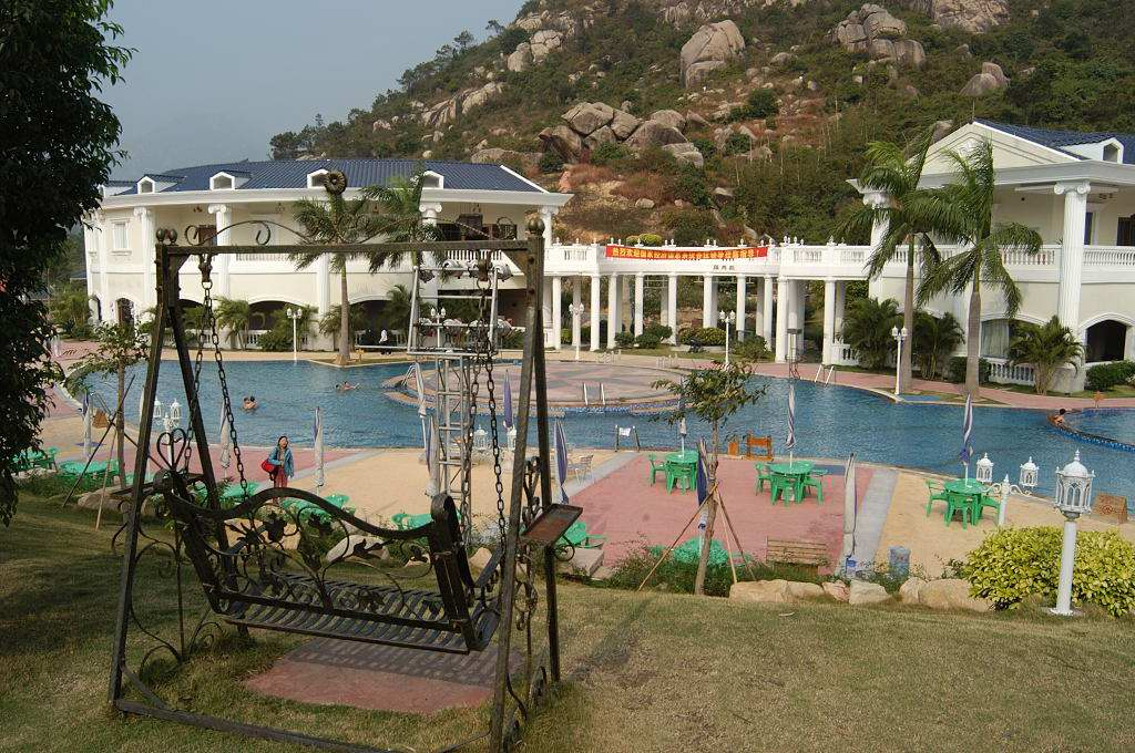 China Guang Dong, Xin Hui, Gu Dou Hot Spring, Hot water swimming pool.